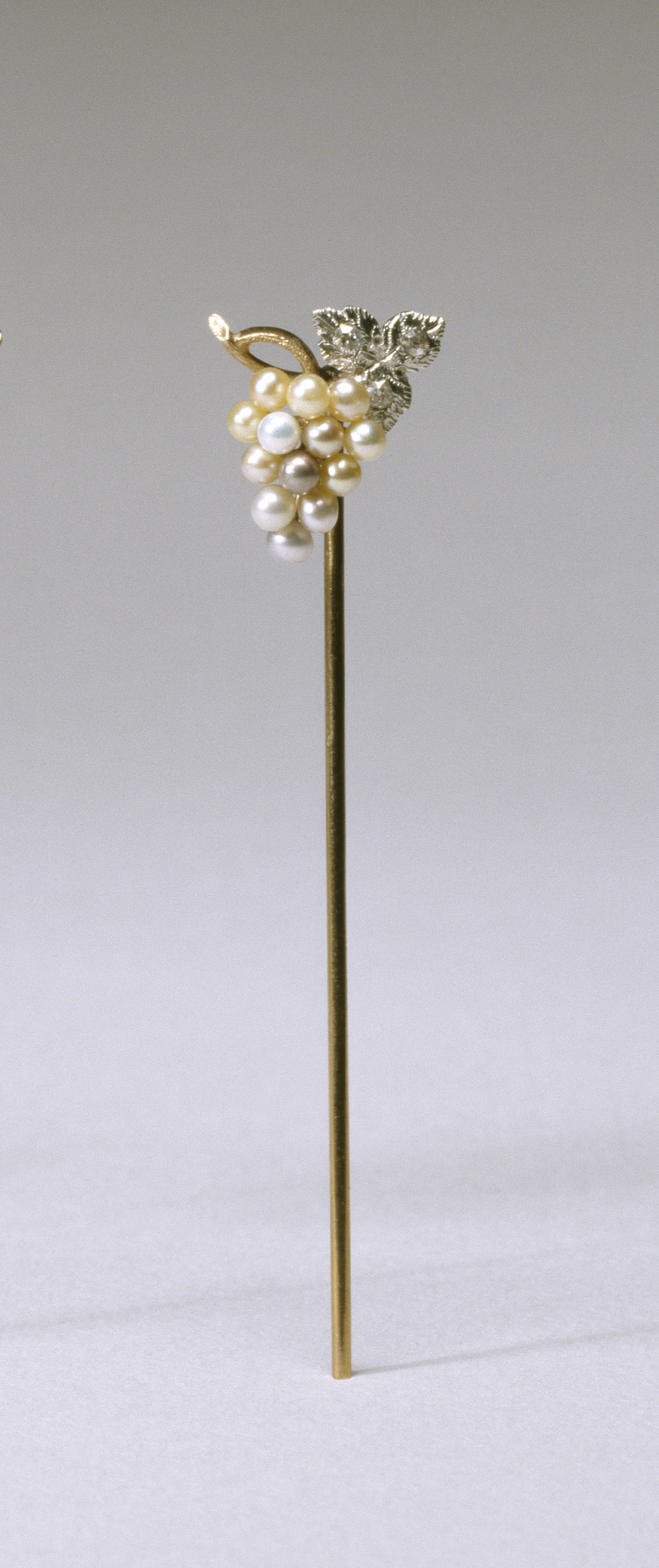 During the early 19th century, stickpins were a popular accessory worn by men as a tie or cravat pin. They came in a variety of precious materials and motifs. So as not to appear feminine, they frequently represented hunting, sporting, or other typically male pursuits. They were also crafted as mourning, commemorative, or souvenir pins.